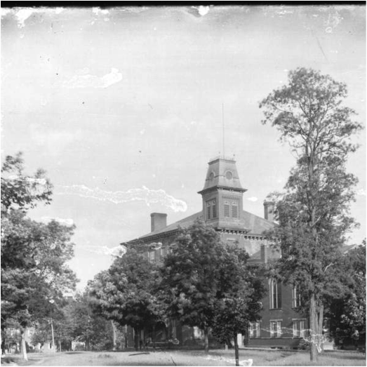 Old Main